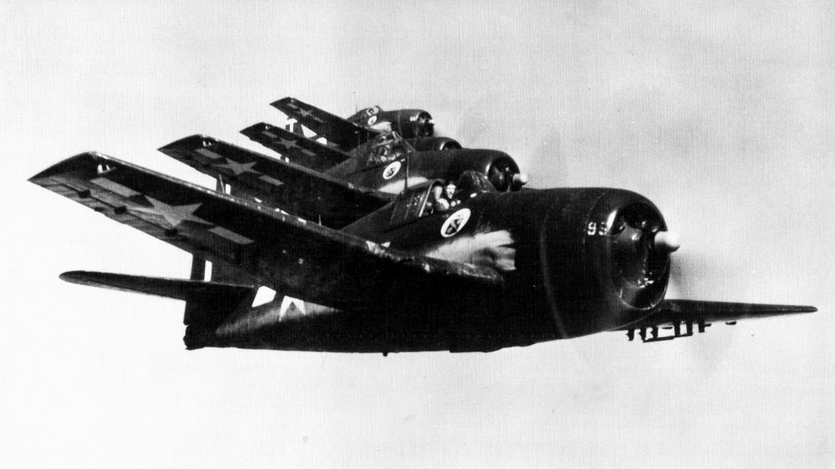 four U.S. Navy Grumman F6F-5 Hellcat from Fighting Squadron VF-4 "Red Rippers" in flight. VF-4 was assigned to Carrier Air Group 4 (CVG-4) aboard the aircraft carriers USS Bunker Hill (CV-17) and USS Essex (CV-9) in late 1944 and early 1945.